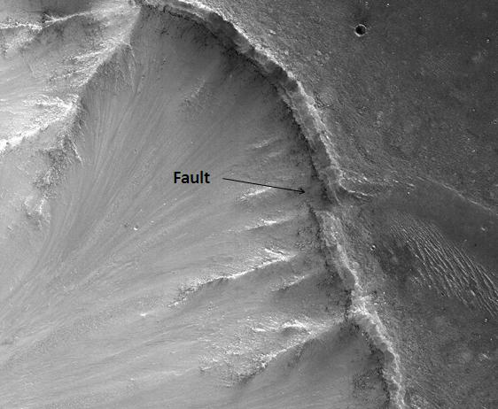 Corprates Chasma Fault, as seen by hirise. Location is 12.8 degrees south latitude and 299.9 degrees east longitude. Image was taken by the Mars Reconnaissance Orbiter's HiRISE. The HiRISE camera was built by Ball Aerospace and Technology Corporation and is operated by the University of Arizona. Image courtesy NASA/JPL/University of Arizona.